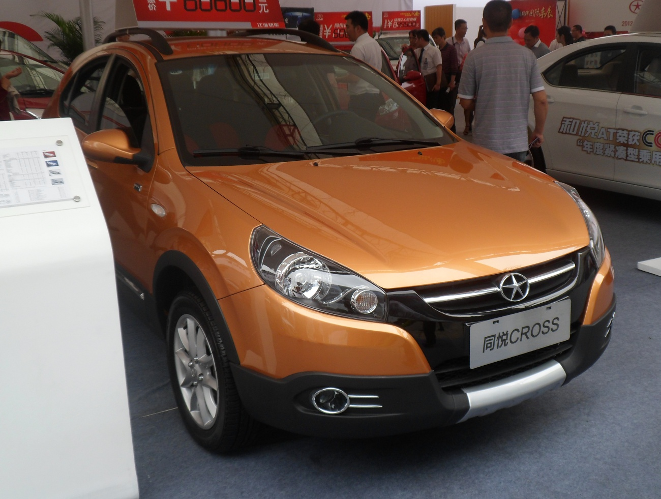 JAC Tongyue RS Cross photographed at the 2012 Chongqing Auto Show, Chongqing, China.